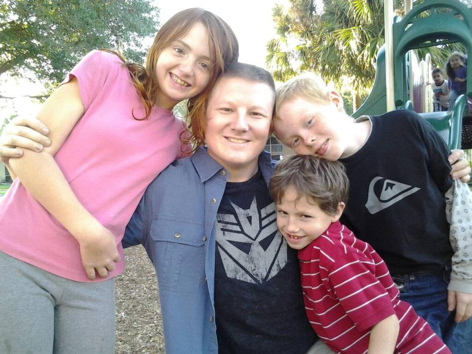 Picture of Walter Singleton with Haley Singleton, Aiden Singleton, and Seth Singleton in Orlando, FL.